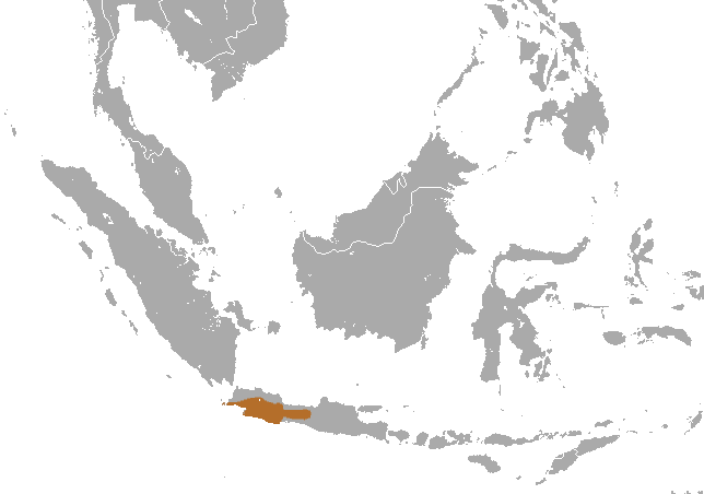 Silvery Gibbon (Hylobates moloch) range